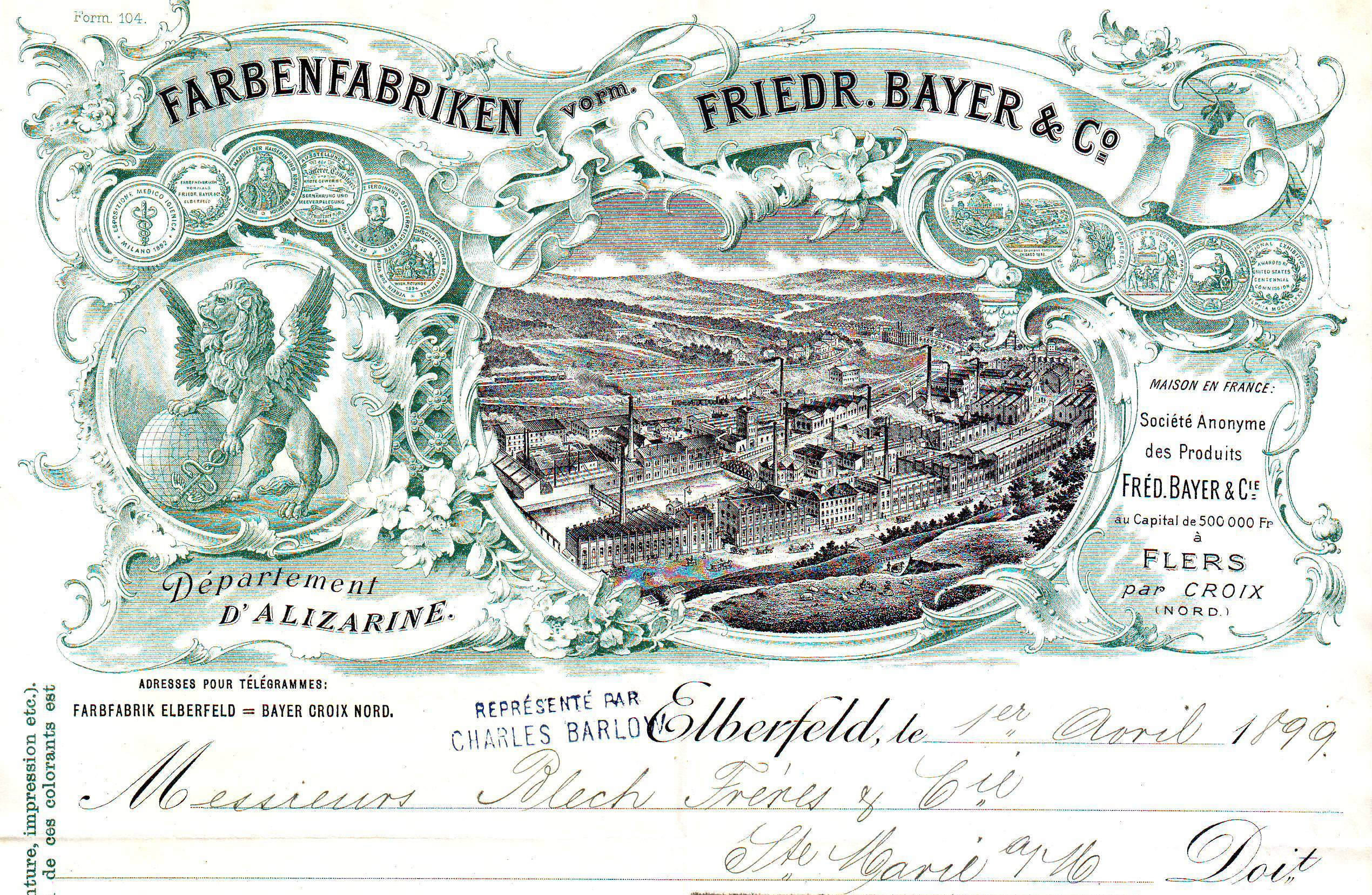 Header of a bill from the Farbenfabriken vorm. Friedr. Bayer & Comp, issued 1. April 1899 in Elberfeld